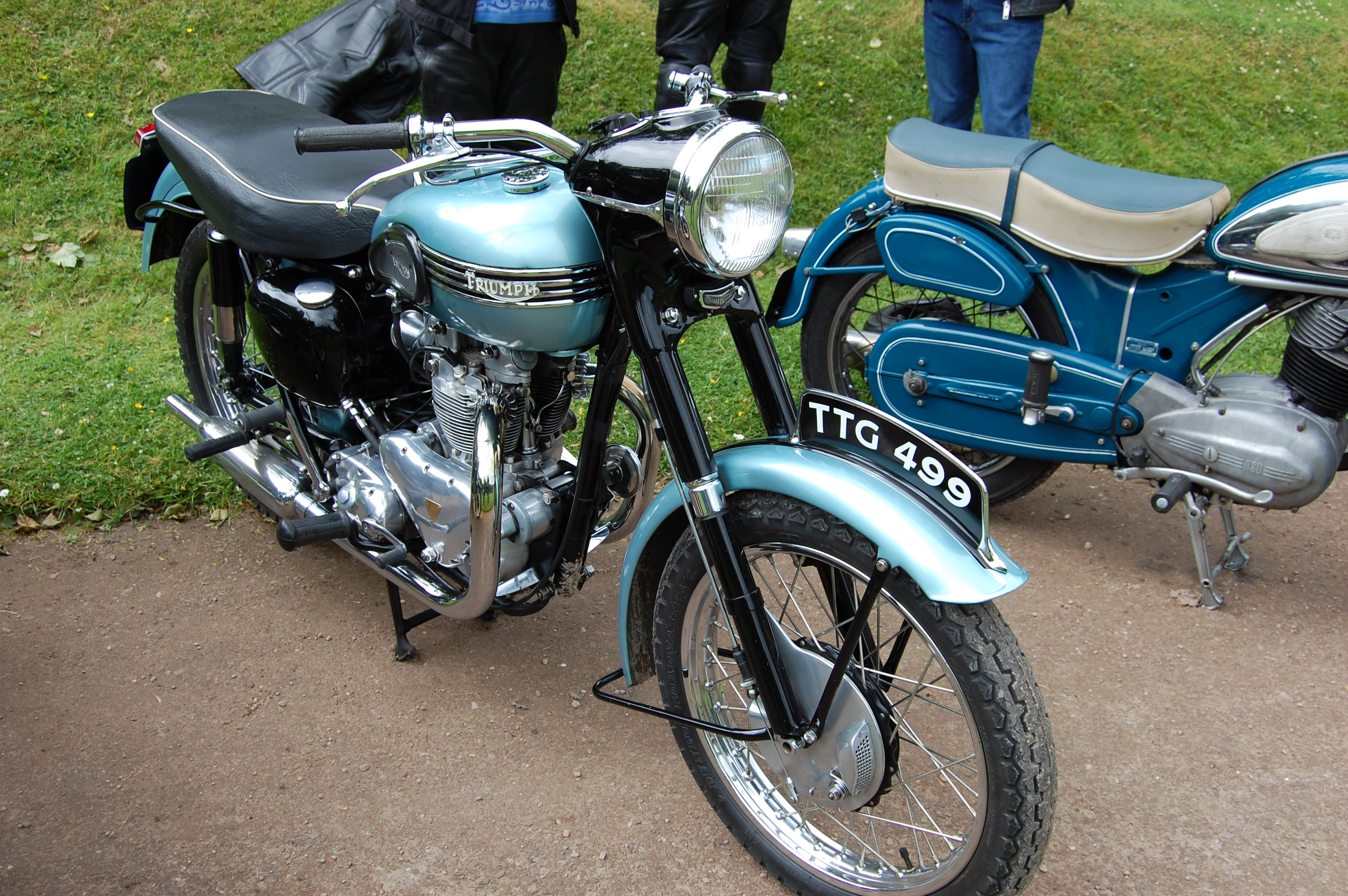 The Triumph Tiger 100 (T100) was a British motorcycle first made by Triumph at their Coventry factory for 1939. As with previous models the '100' referred to its claimed maximum speed. It was developed as a 'sports' version of the Triumph Speed Twin. Finished in silver and costing £5 more, new features included a larger fuel tank and detachable silencers.[1] The Triumph works was destroyed by German bombers on the night of the 14th November 1940 - along with much of the city of Coventry bringing production of the Tiger 100 to an end until after the war. When Triumph recovered and began production again at Meriden the Tiger 100 re-appeared with the new telescopic fork. In 1951 it gained a new close finned alloy cylinder barrel and factory race kits for independent racers. In 1953 a fully race-kitted model, the Tiger 100C, was available although only 560 were made.[2] 1954 saw the first swinging-arm rear suspension models and the Tiger 100 was developed year on year alongside the other models in the range. 1959 was the last of the pre-units (separate engine/gearbox) and in 1960 it was completely redesigned in the new 'unit' style as the T100A. A long line of T100SS, T100C, T100R and others appeared during the sixties in the UK & export (mainly US) markets culminating in the Daytona variants which soldiered on until 1973. The historic Tiger name was revived by the new Hinckley Triumph company in 2001.